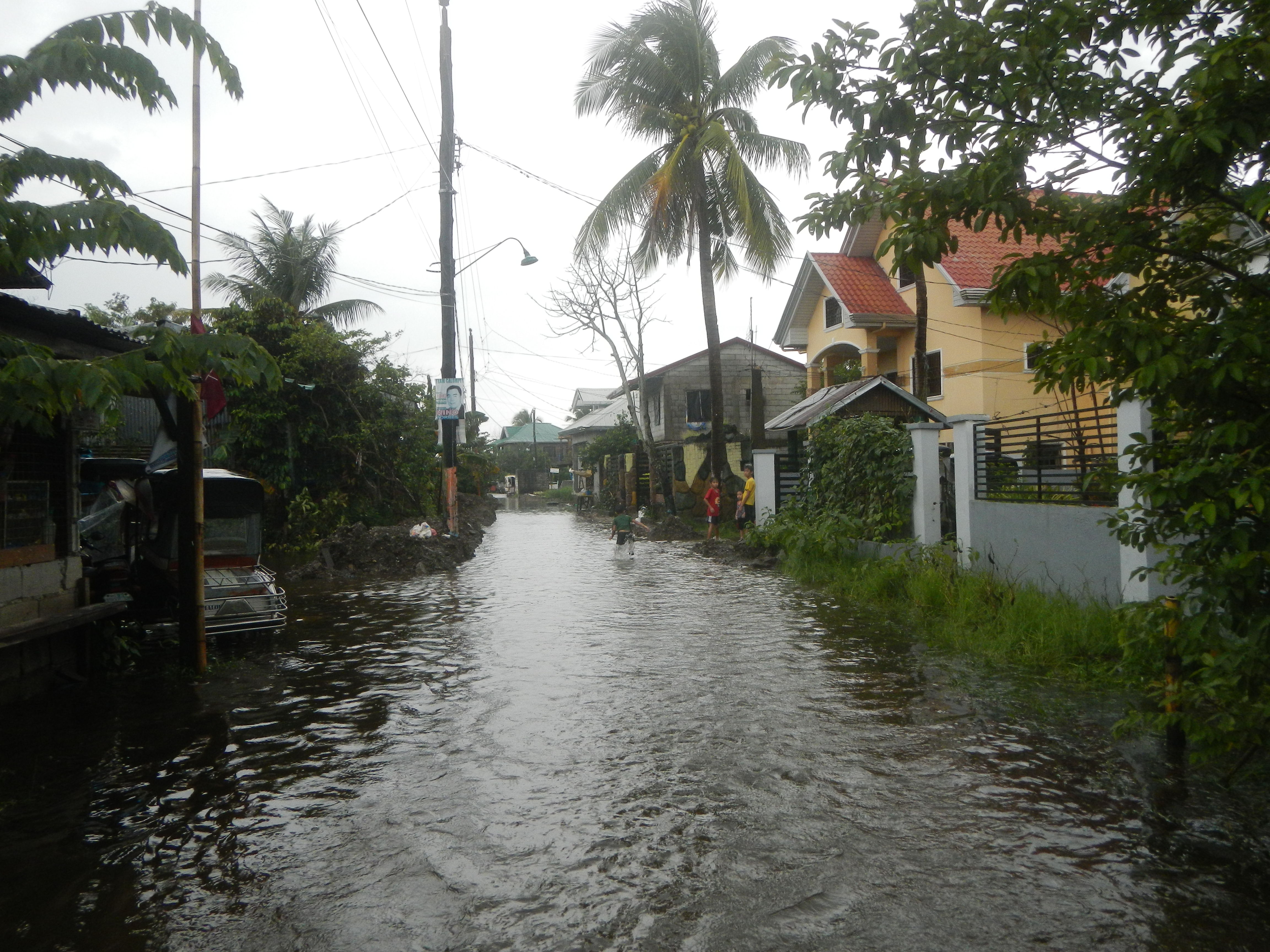 Typhoons Krosa-Lekima & monsoon tidal flooding in Calumpit, Bulacan Habagat Monsoon of South Asia Typhoon Lekima (Hanna) Category:Typhoon Lekima (2019) Typhoon Krosa weather, cloudy in in Barangays Gugo 14.8951, 120.7772 and Poblacion 14.9096, 120.7941 Balungao 14°54'54"N 120°45'50"E Calumpit, Bulacan (accessed from and along the Pulilan-Calumpit, Bulacan Road part of the MacArthur Highway (Calumpit, Bulacan, Apalit, Minalin, Santo Tomas and City of San Fernando, Pampanga section) including MacArthur Highway (Calumpit, Bulacan-Apalit, Pampanga section) of MacArthur Highway or Manila North Road) (Note: Judge Florentino Floro, the owner, to repeat, Donor Florentino Floro of all these photos hereby donate gratuitously, freely and unconditionally all these photos to and for Wikimedia Commons, exclusively, for public use of the public domain, and again without any condition whatsoever).